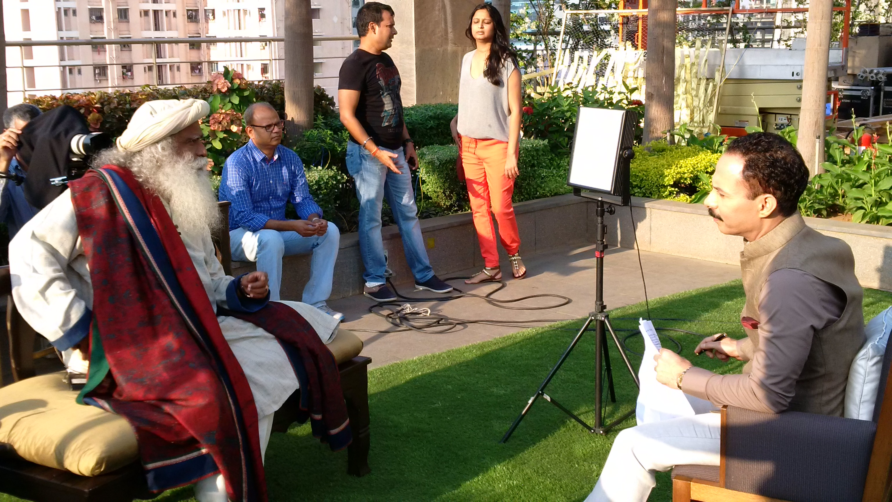 i was present with Mickey Mehta when he was invited to interview Sadguru Jaggi Vasudev at the Palladium Hotel, Mumbai. This is entirely my work